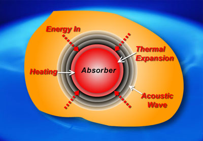 Thermoacoustic signal production cartoon